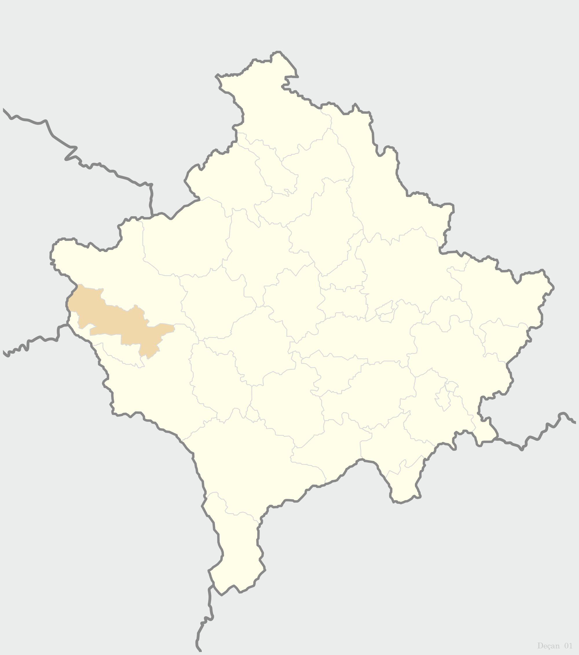 Municipality of Decani map